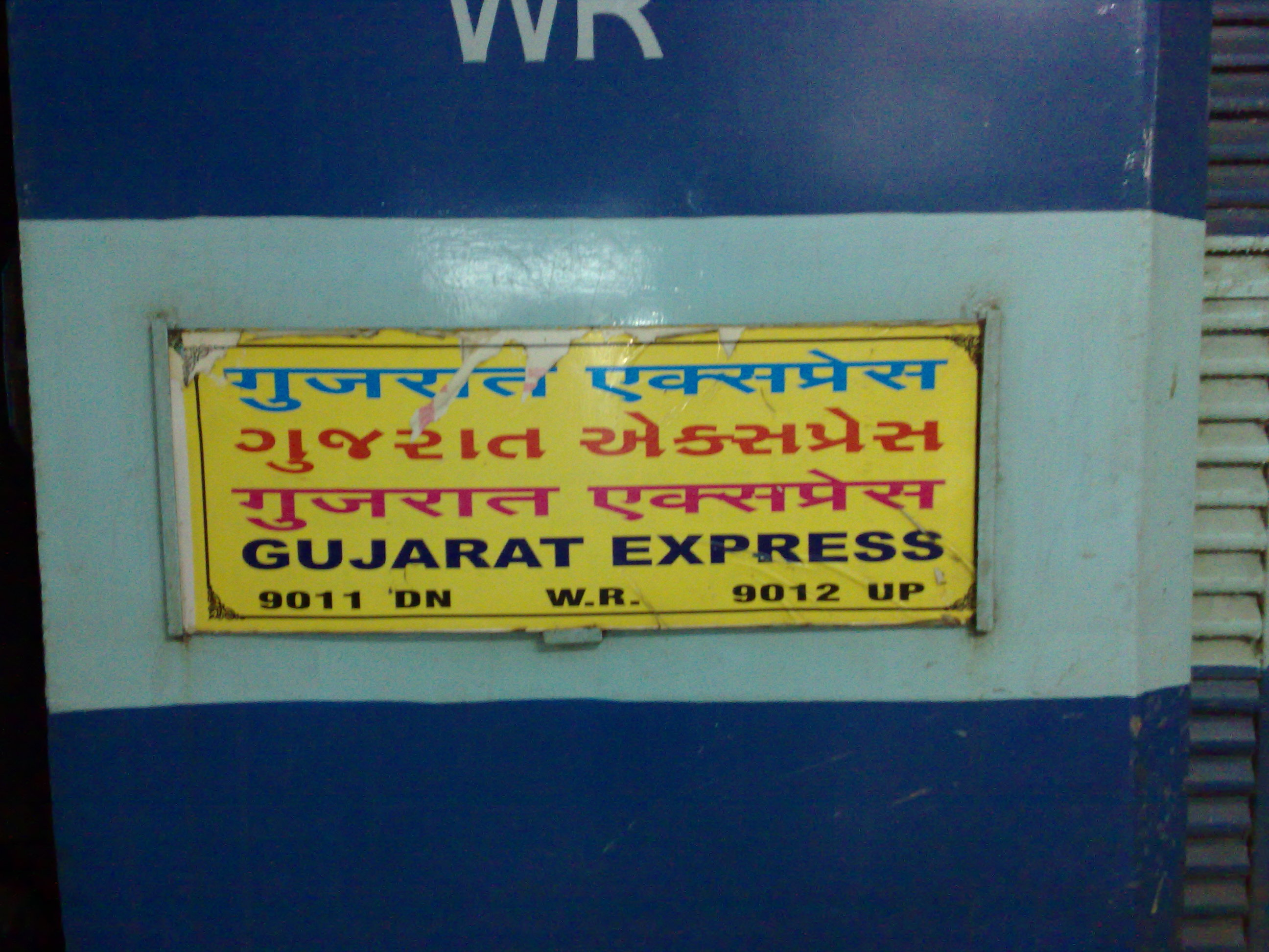 19011 Gujarat Express